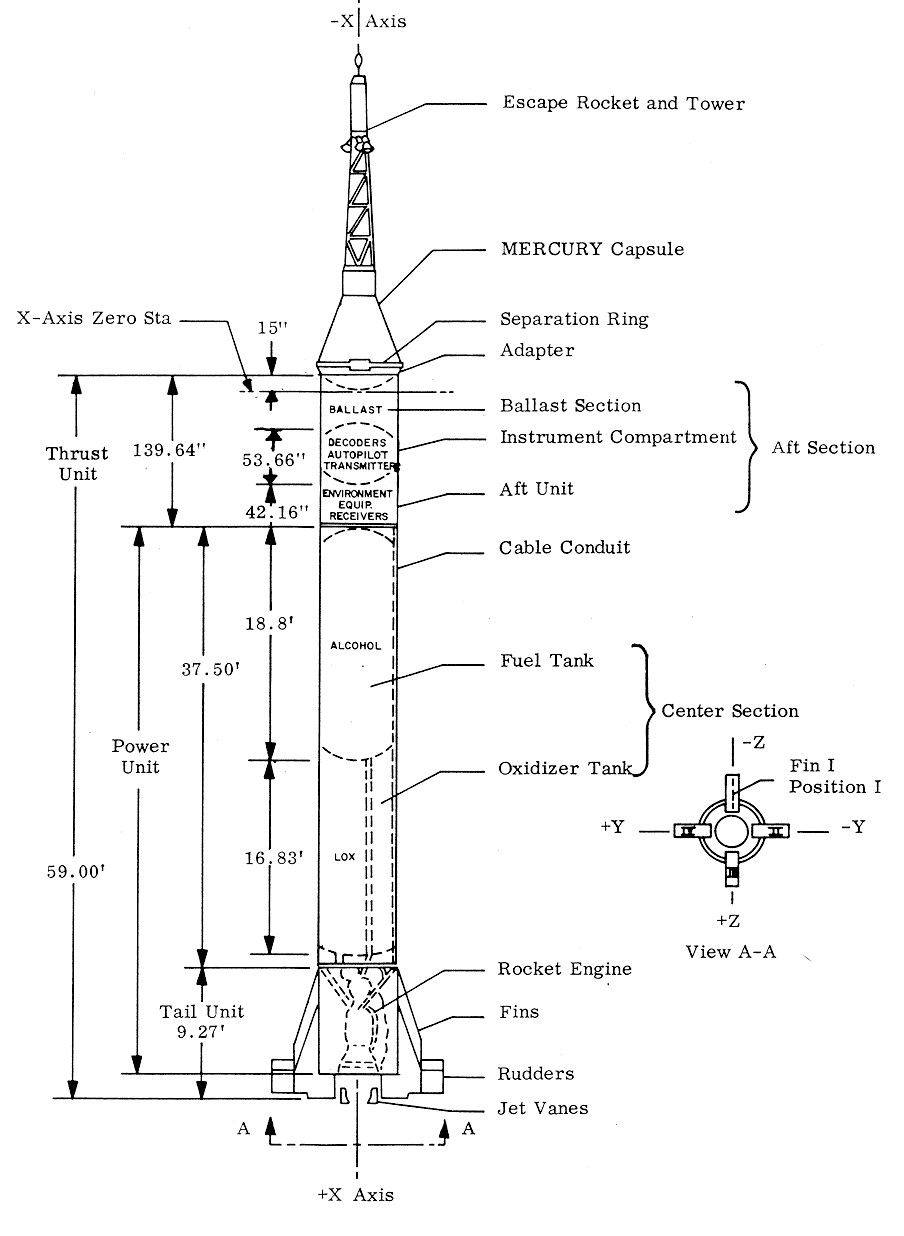 Schematic diagram of the Mercury-Redstone booster, showing functional units, components, and dimensions (in feet and inches).